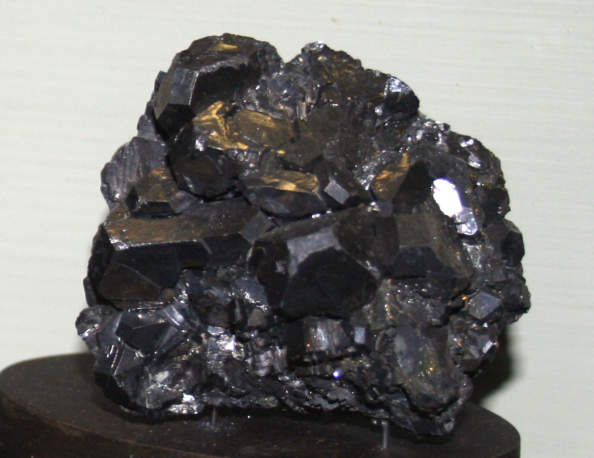 Mineral galena from collection of National Museum, Prague, Czech Republic, originally from Czech republic